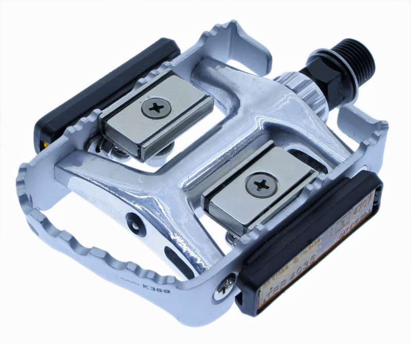 Mega-bikes magnet pedal system allows for a free choice of foot positioning on the pedal.